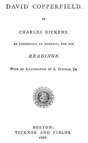 Published by Ticknor and Fields, Boston